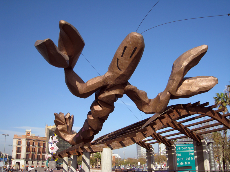 The Gamba de Mariscal, sculpture of a norway lobster by Javier Mariscal, designed for the former restaurant Gambrinus at the Passeig de Colom in Barcelona, Catalonia (Spain).